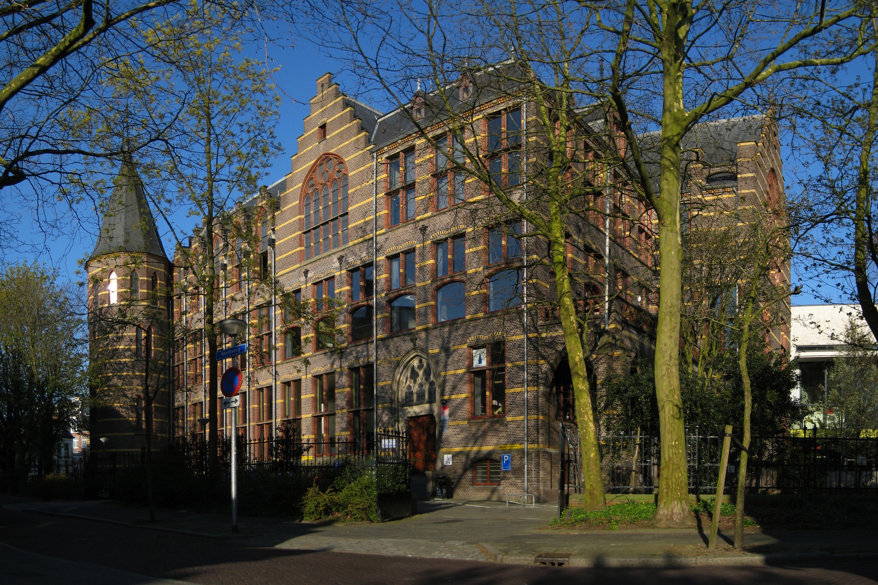 The former Mineralogisch-Geologisch Instituut (1898-1901) of the Dutch University of Groningen.